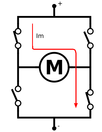 H bridge with a line indicating current. Made using the electrical symbole library.svg